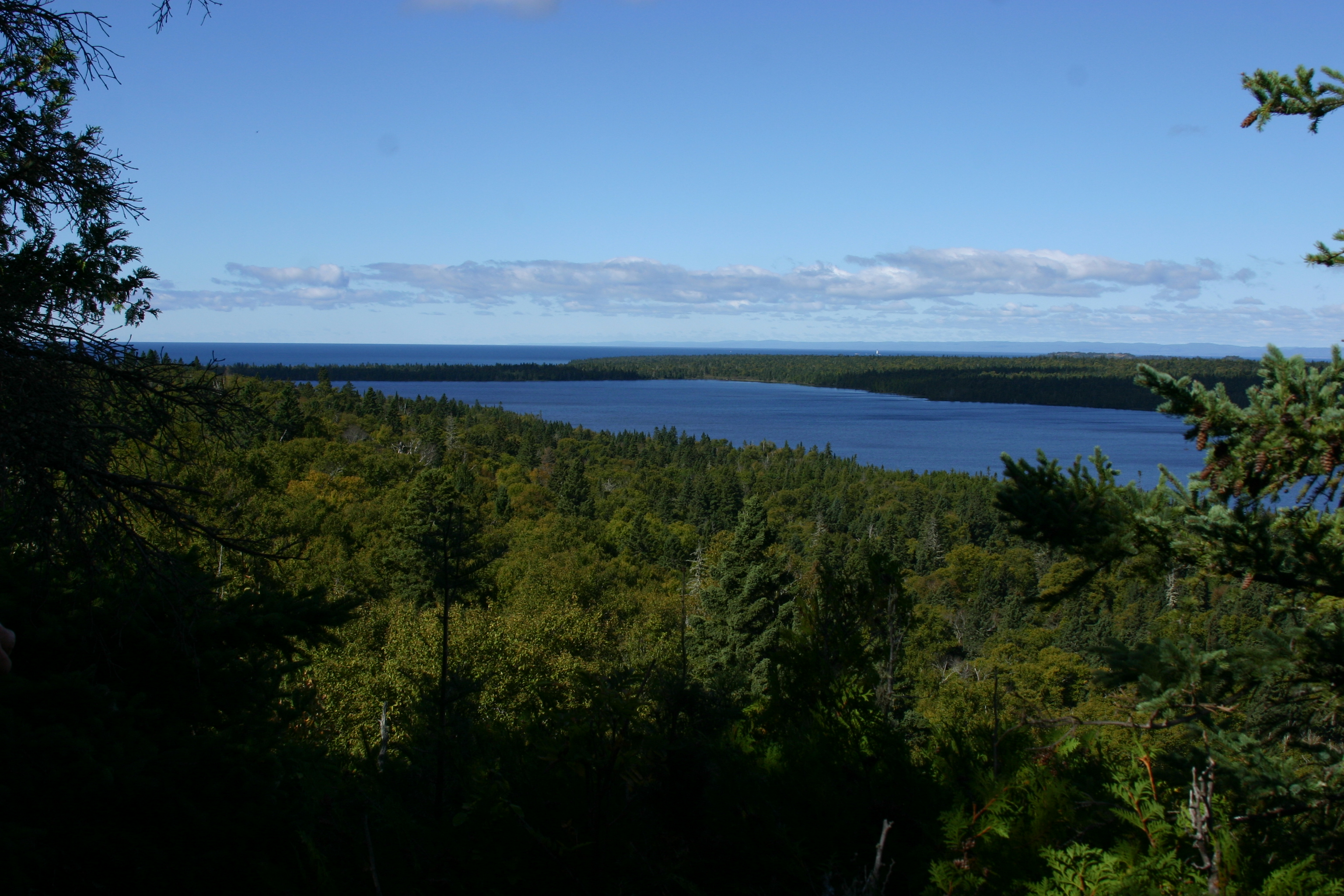 Feldtmann Ridge to Siskiwit Bay